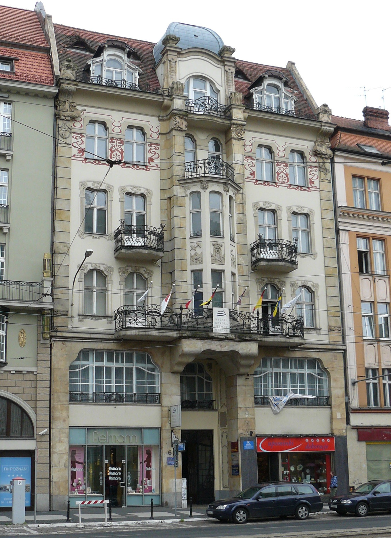 Haase-Wagner House in Poznan, St.Martin Street 69.